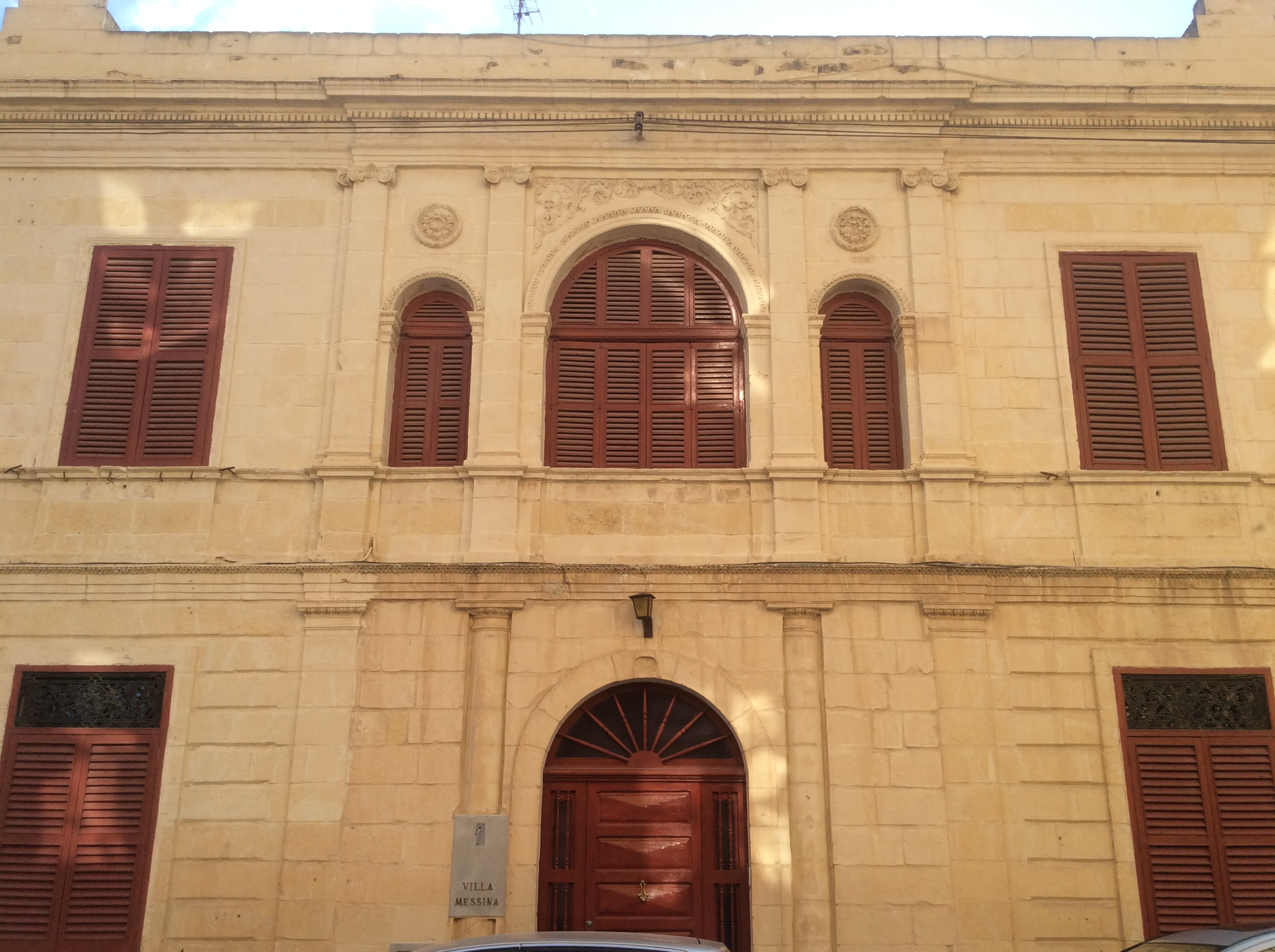 Villa Messina Guardamangia Pieta Malta